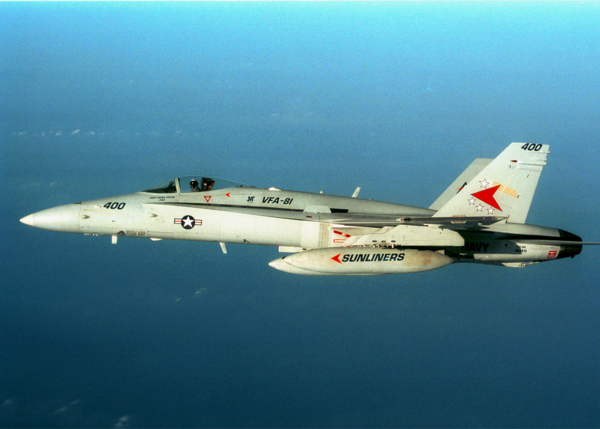 An F/A-18 “Hornet” from the “Sunliners” of Strike Fighter Squadron Eight One (VFA-81) assigned to Carrier Air Wing One Seven (CVW -17), climbs to an assigned altitude after completing a catapult launch from the aircraft carrier USS George Washington (CVN 73). George Washington and her Battlegroup are on a regularly scheduled deployment conducting missions in support of Operation Enduring Freedom. U.S. Navy photo by Captain Dana Potts.